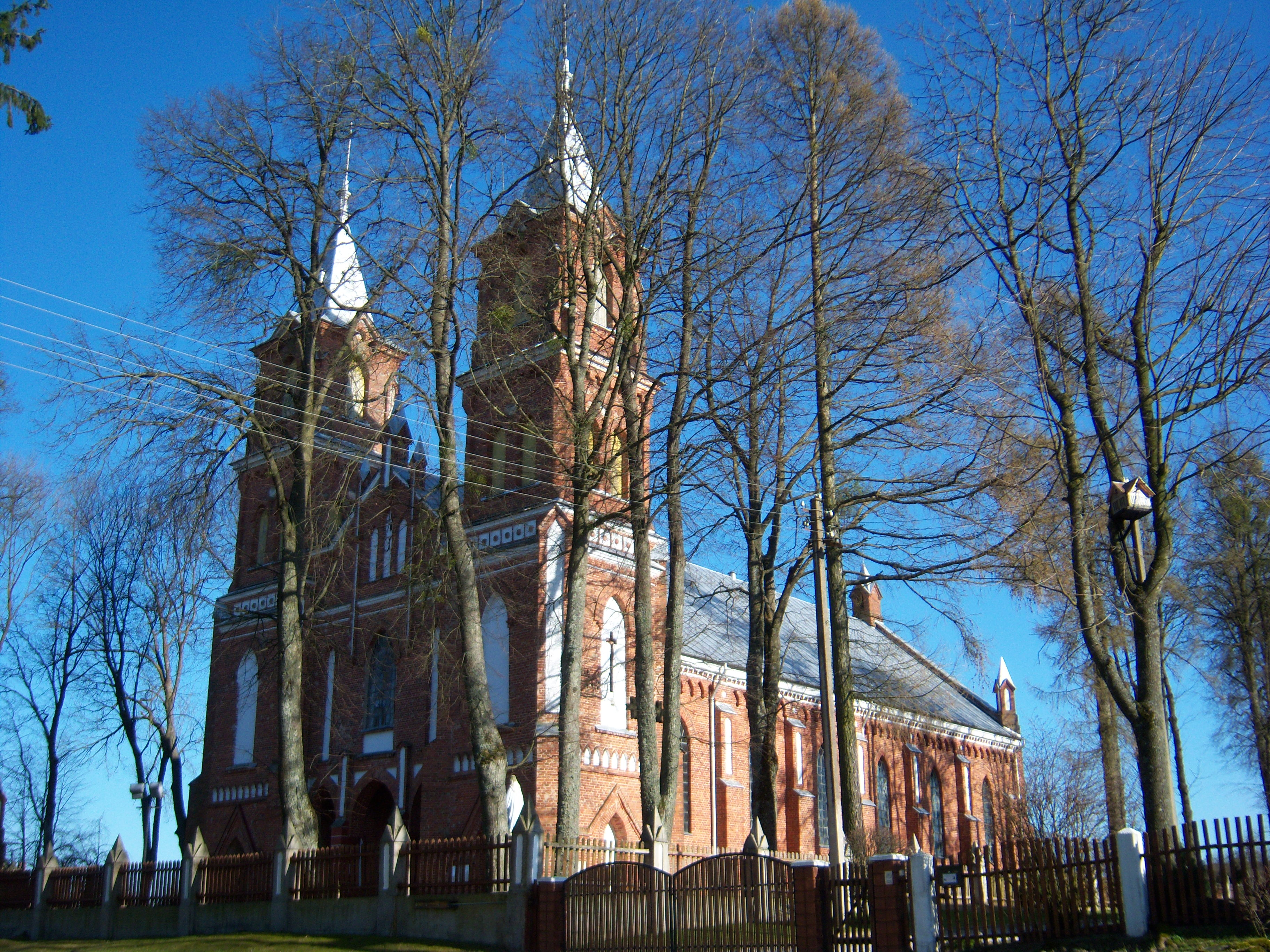 Roman Catholic Church in Šilavotas, Prienai district, Lithuania